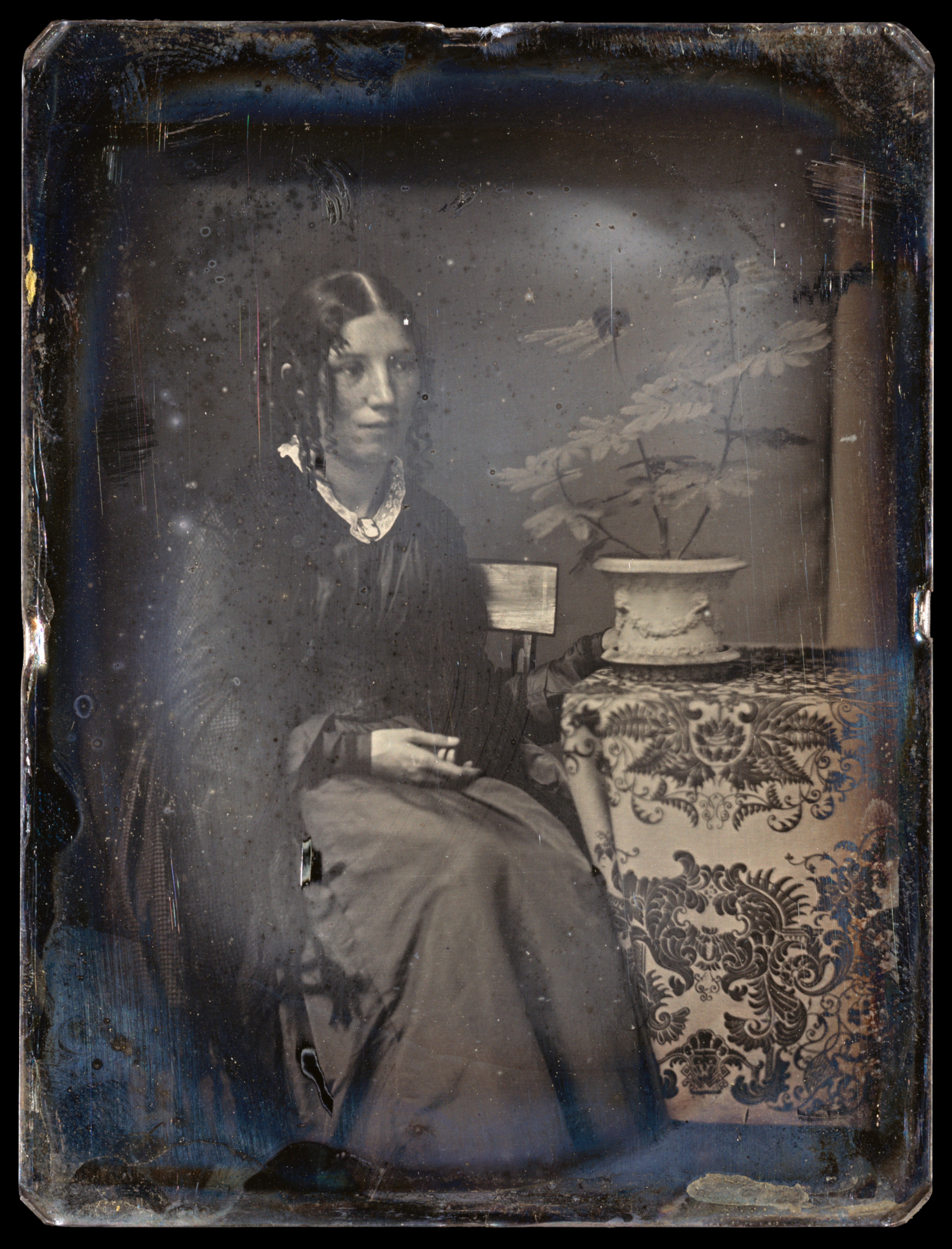 daguerreotype of Harriet Beecher Stowe